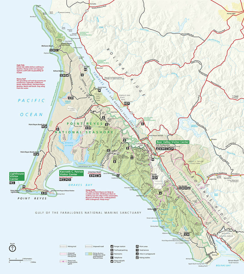 NPS map of the Point Reyes National Seashore, California.